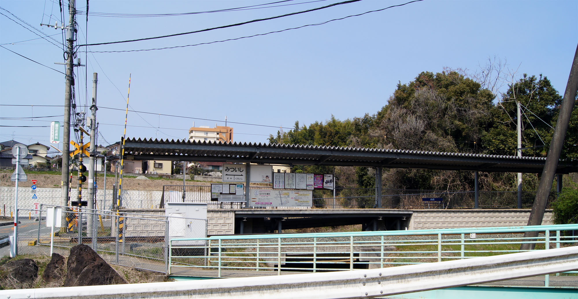 Mitsuishi Station seen from the east. To the right: Miyoshi, to the left: Kita-Kumamoto.